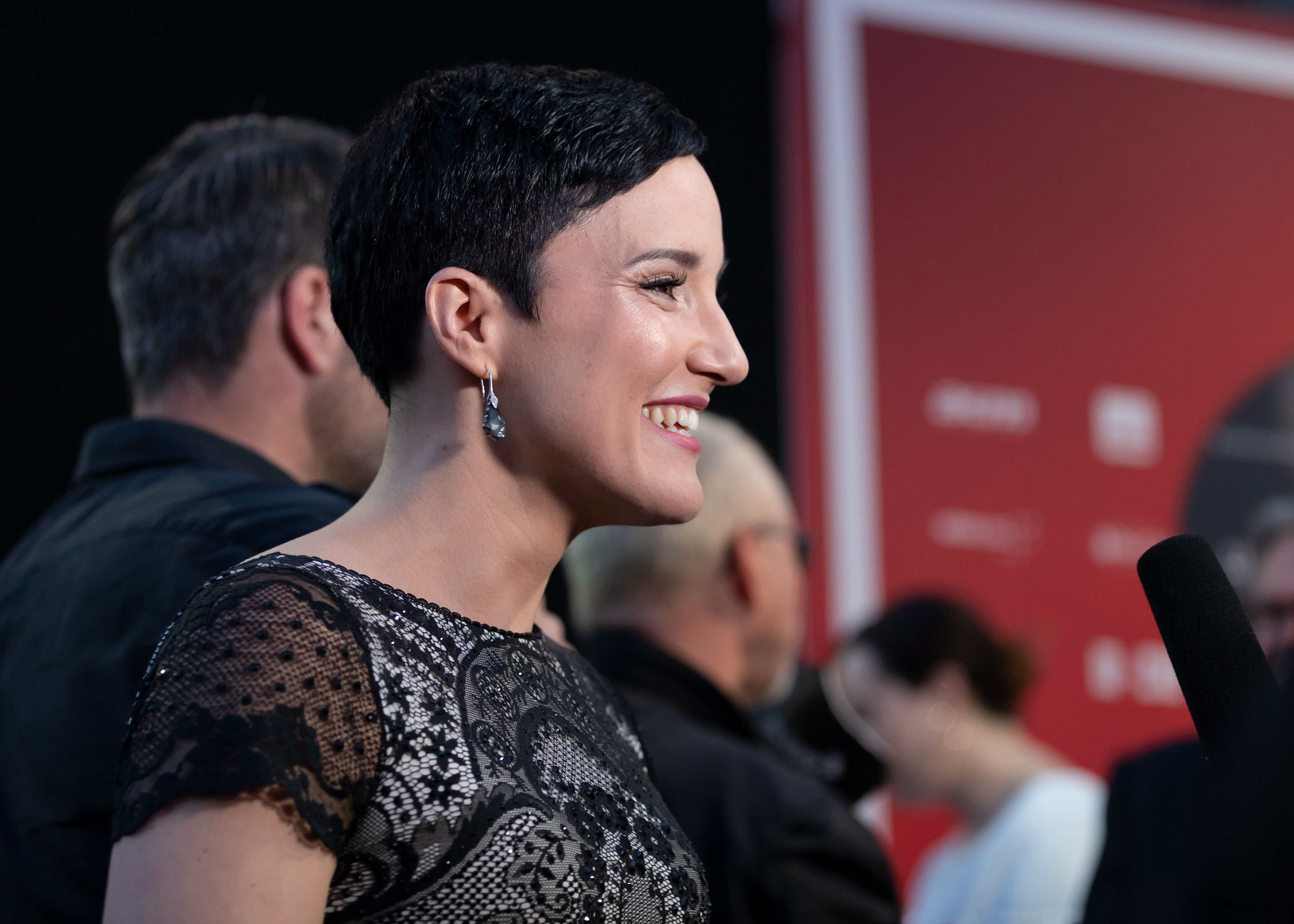 Ina Regen at the Amadeus Austrian Music Award 2019 at Volkstheater in Vienna.